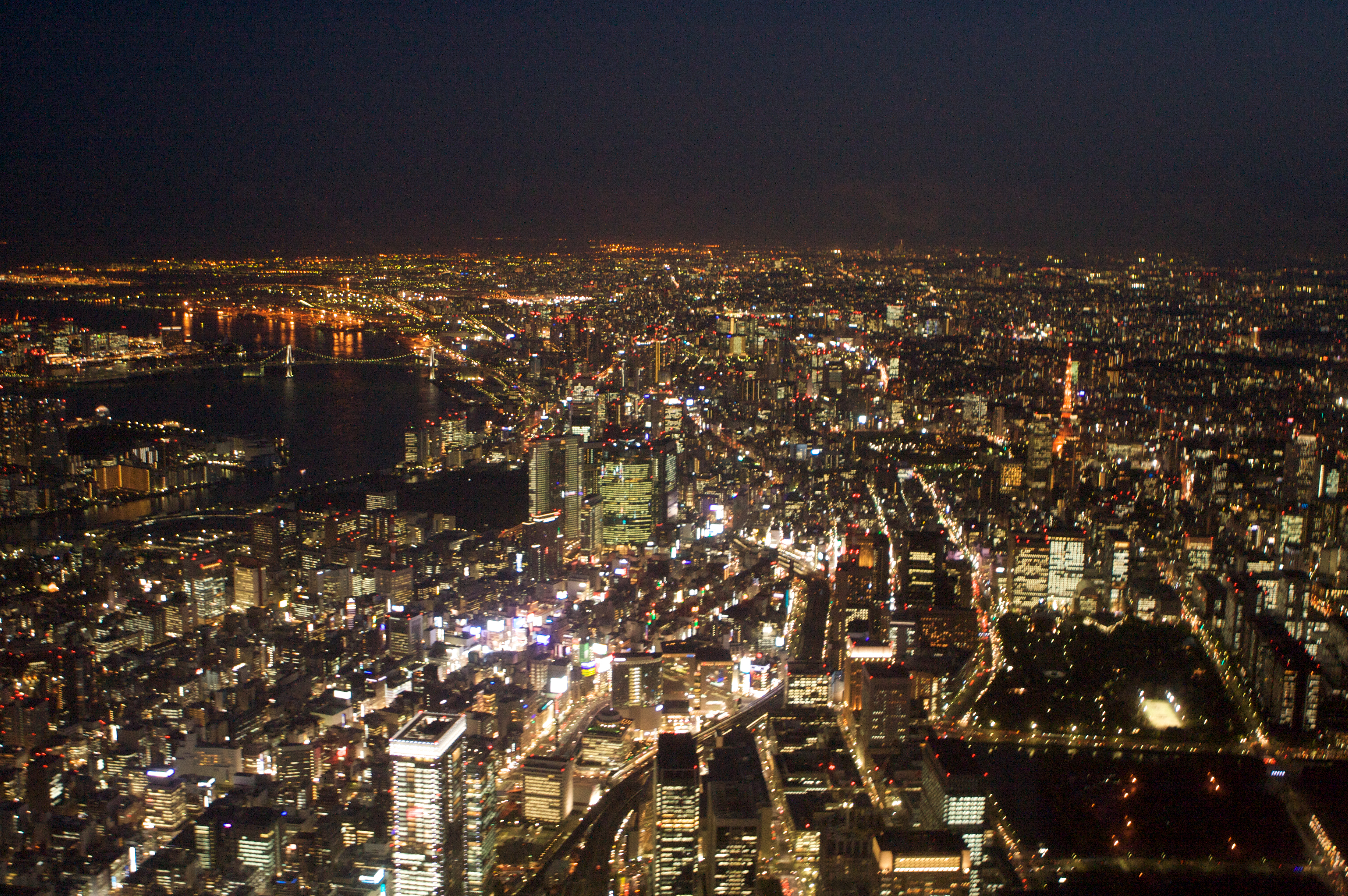 Otemachi, Shinbashi, Tokyo Tower, Rainbow Bridge.